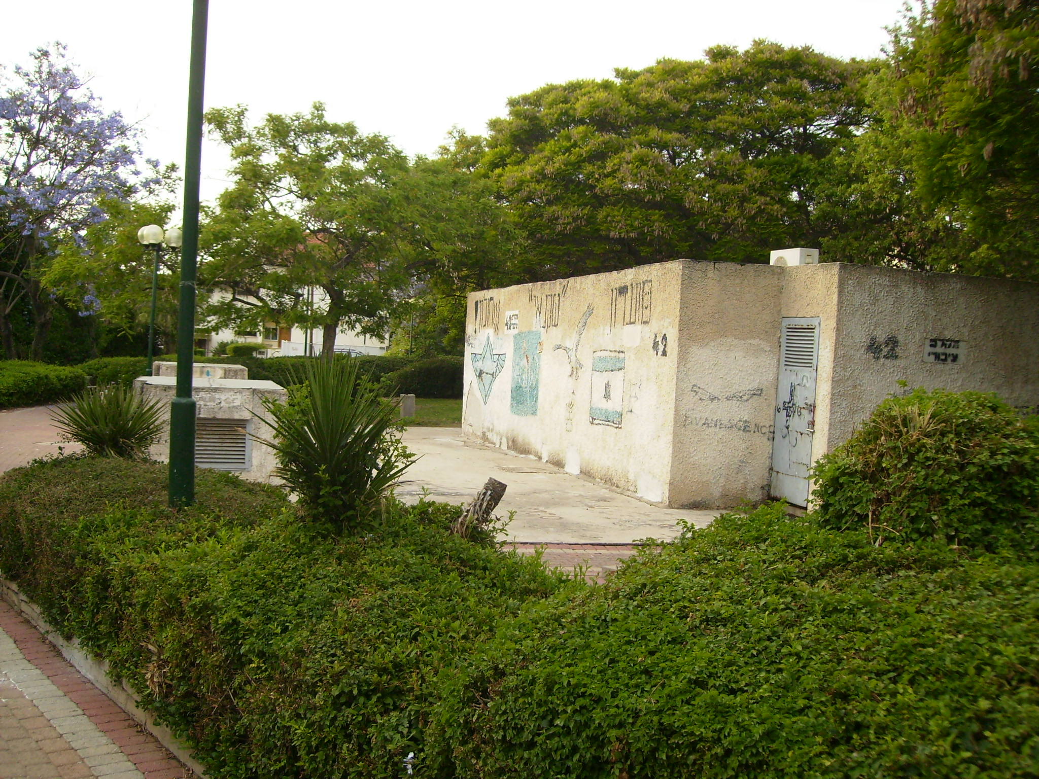 A public air raid shelter in a public garden in Holon, Israel